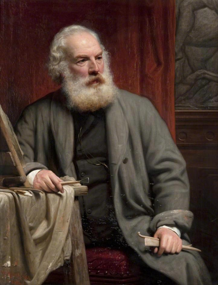 John Mossman (1817–1890), Sculptor; portrait painting by Norman Macbeth, 1884; Glasgow Museums, Oil on canvas, 114.3 x 86.4 cm